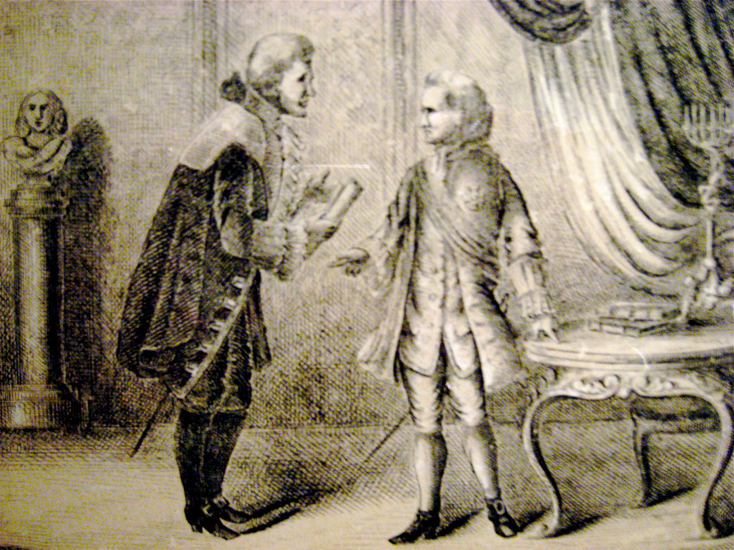 Andreas Peter Bernstorff and Frederik VI of Denmark. detail of engraving celebrating the abolishment of serfdom, c. 1800